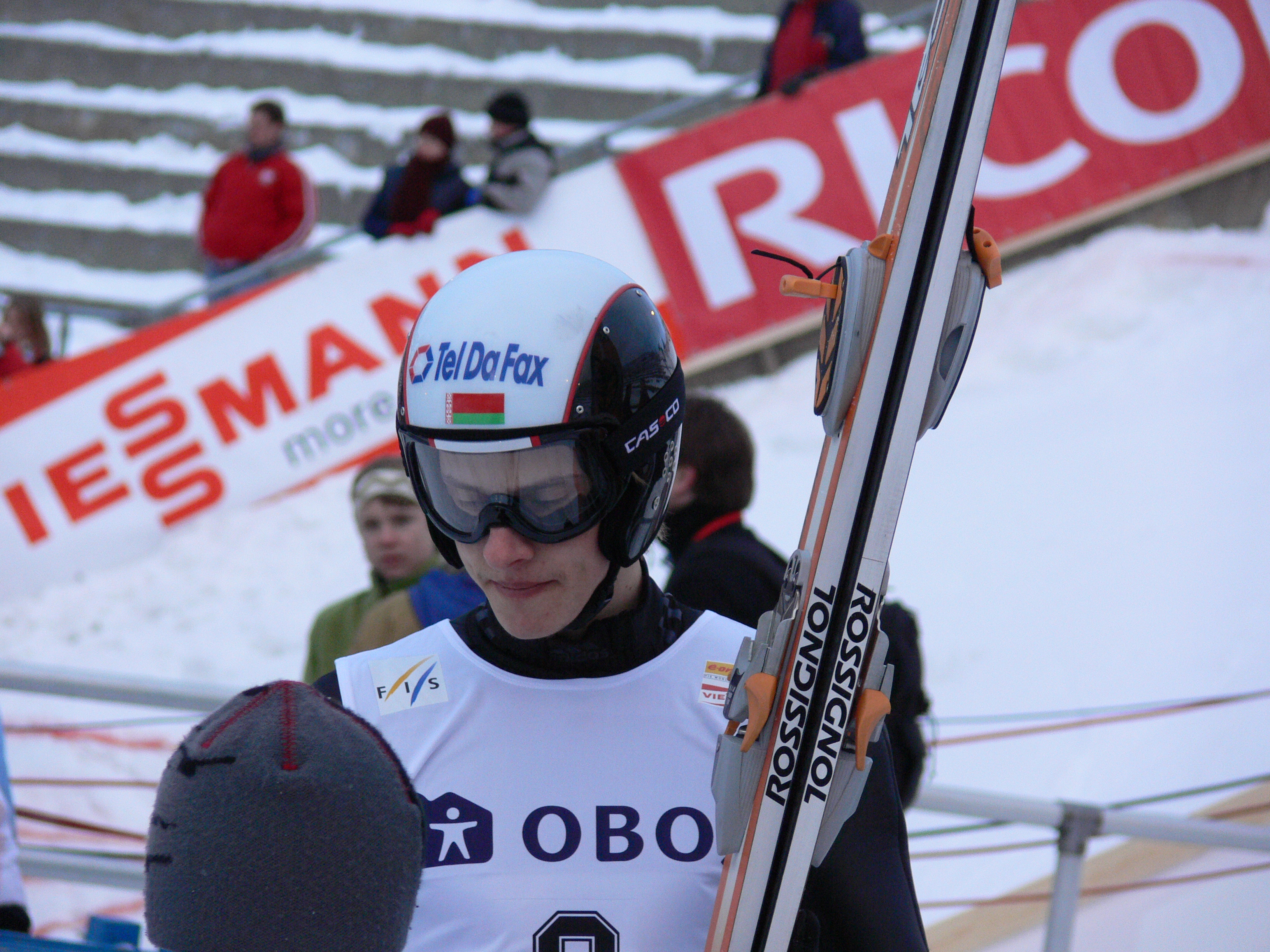 From the 2006 World Cup Ski Jumping event in Holmenkollen.